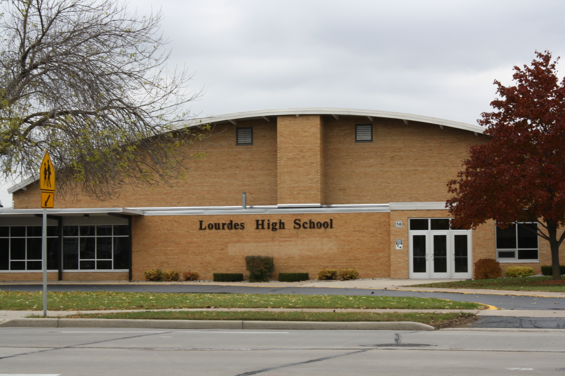 Looking north at the Lourdes High School (Oshkosh, Wisconsin) entrance.